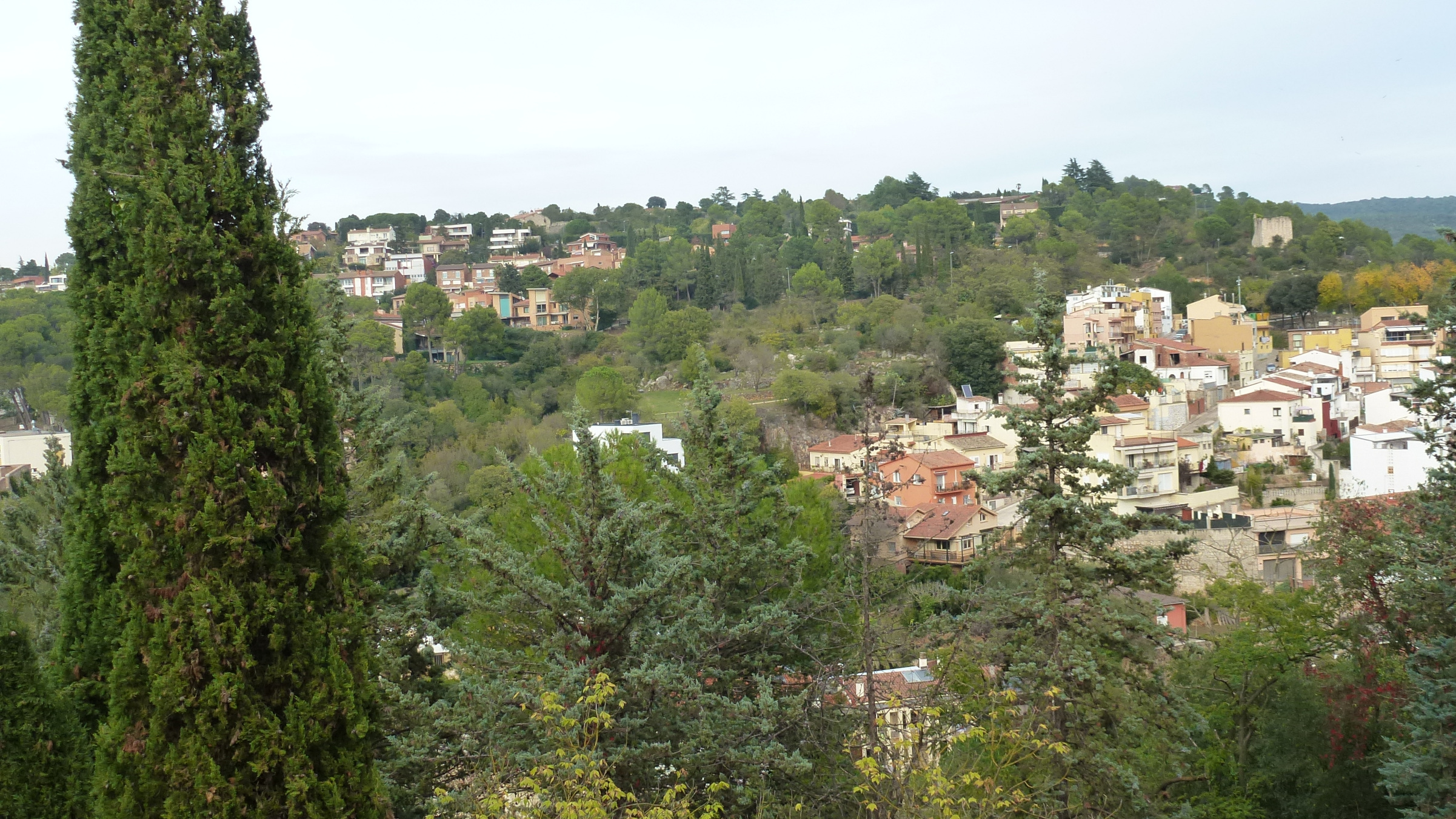 The image shows the state of the Montjuic neighborhood of Girona in 2019, as seen from Girona Cathedral. The image is from the same perspective as a photograph taken in 1911 by Valentí Fargnoli.